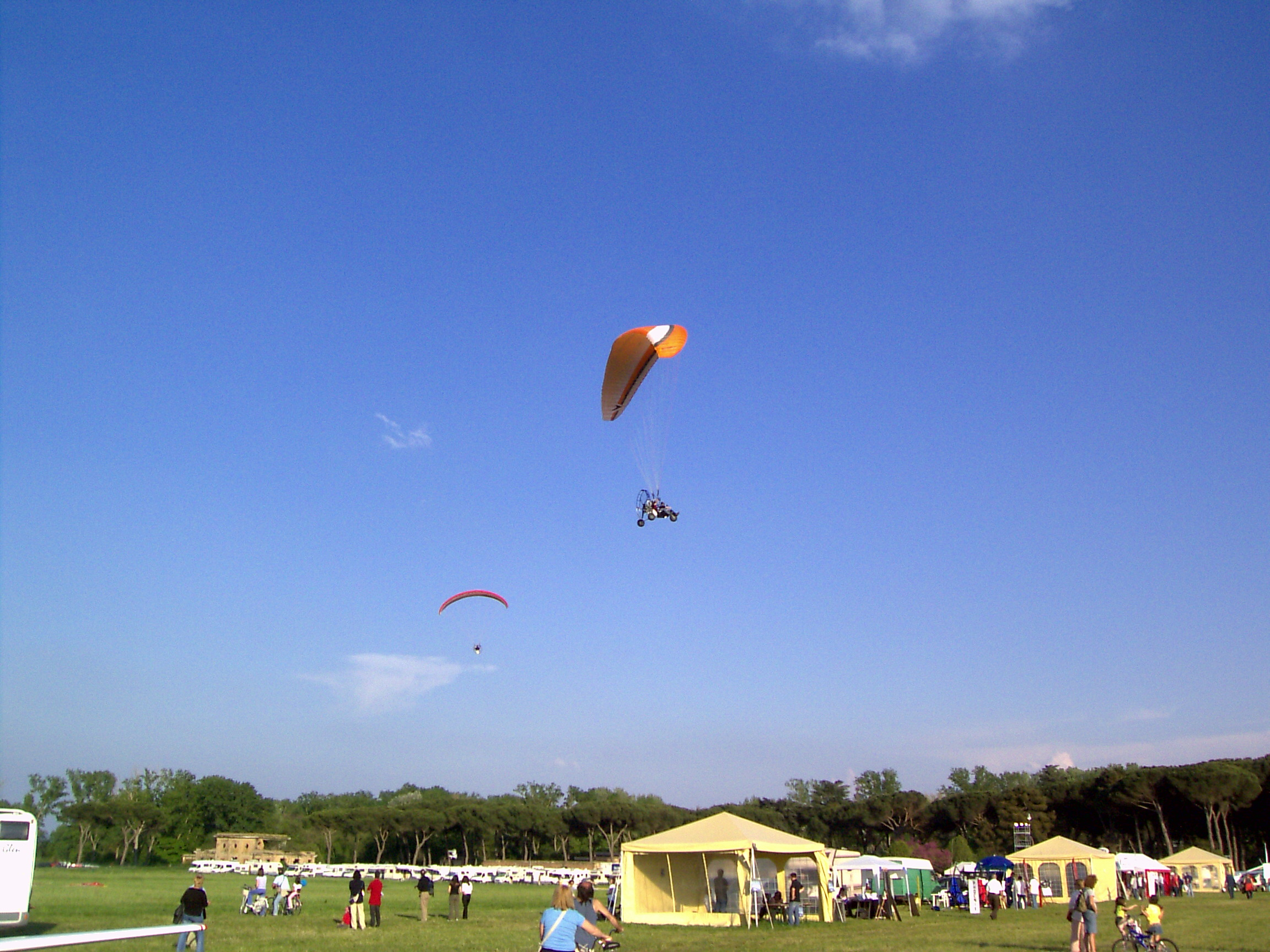 Aishows in the ex-Eleuteri airport, it's called Ali sul Trasimeno, and happens in spring.SM.